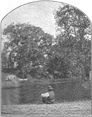 An 1878 photograph of Abrahams Creek